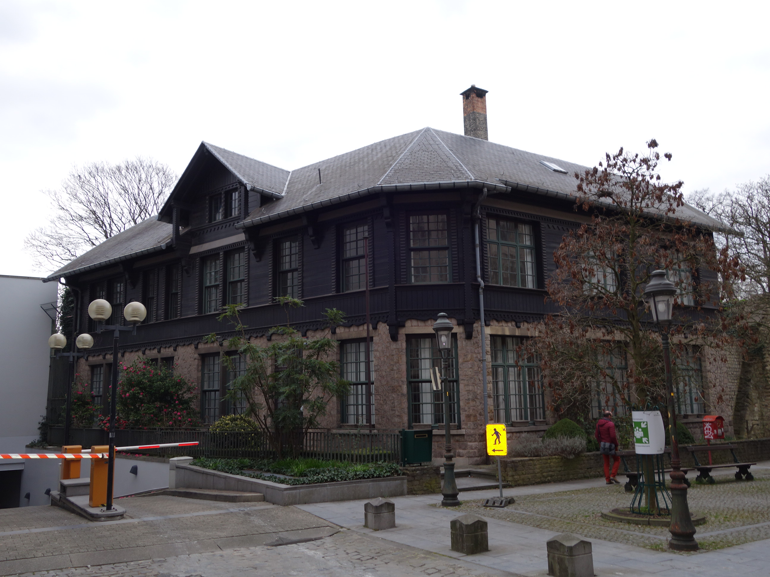 Norwegian chalet (1906), designed by Ivar A. Knudsen for King Leopold II of Belgium. Headquarters of the Congo Free State.